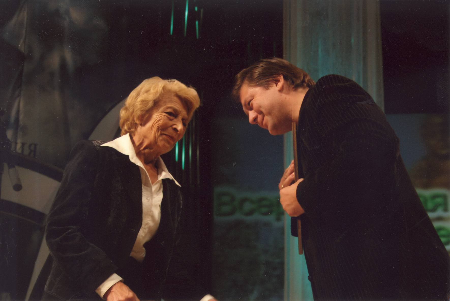 Award ceremony: Svetlana Esenina and Dmitry Darin, Moscow